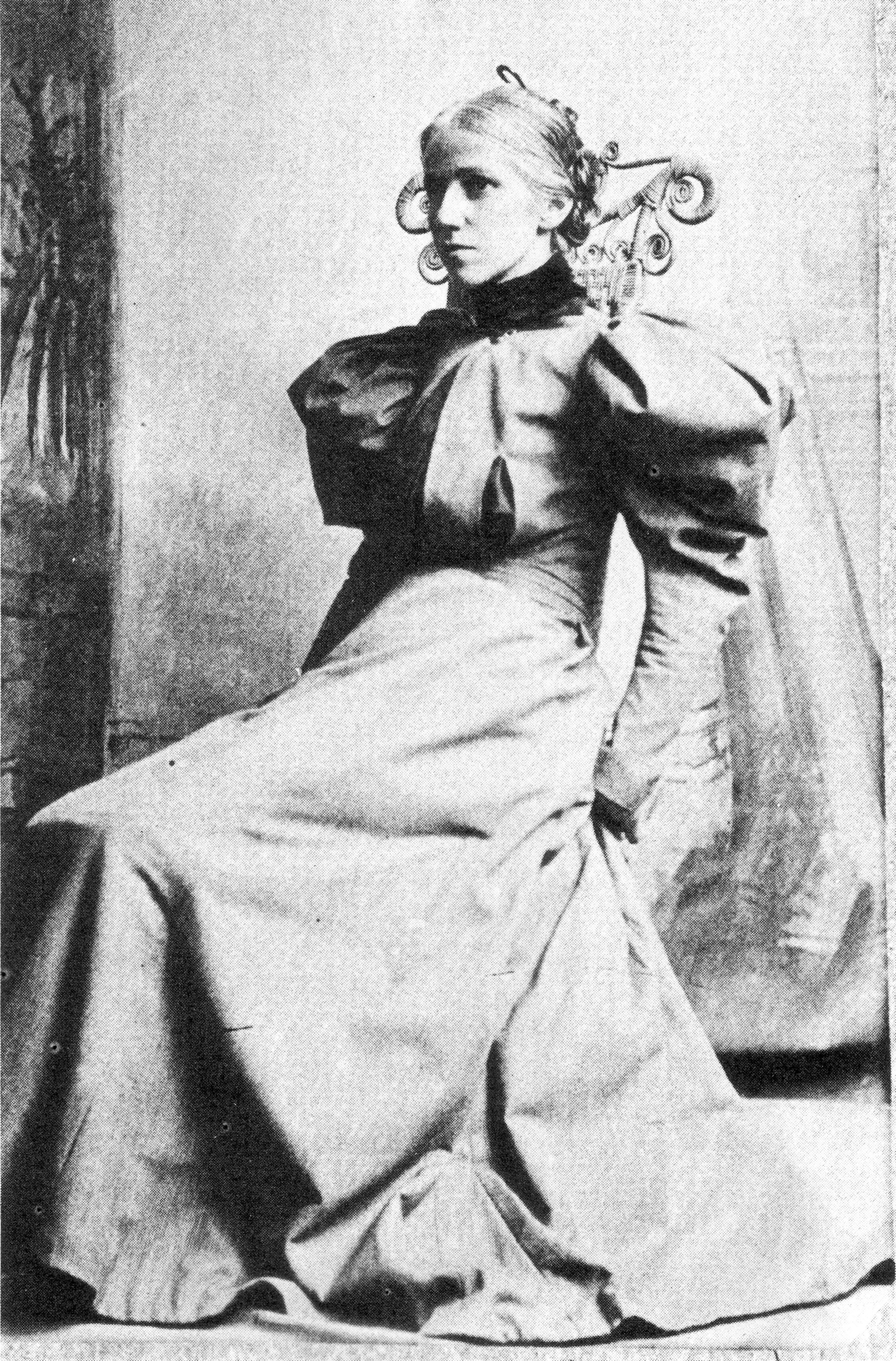 Portrait of Amelia Van Buren